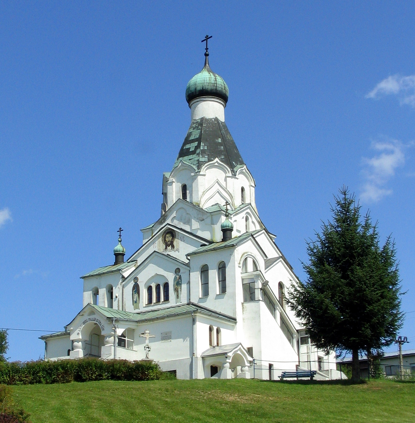 Orthodox Church of Holy Spirit in Medzilaborce in Slovakia